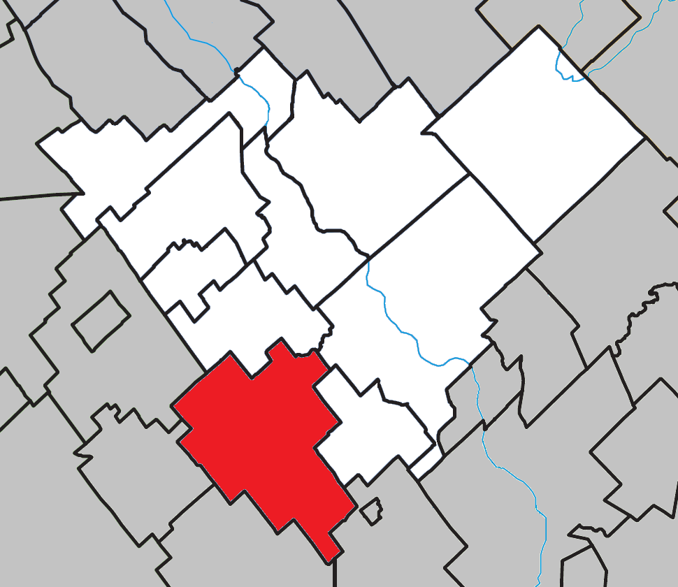 Location of Saint-Victor, Quebec within Robert-Cliche Regional County Municipality.